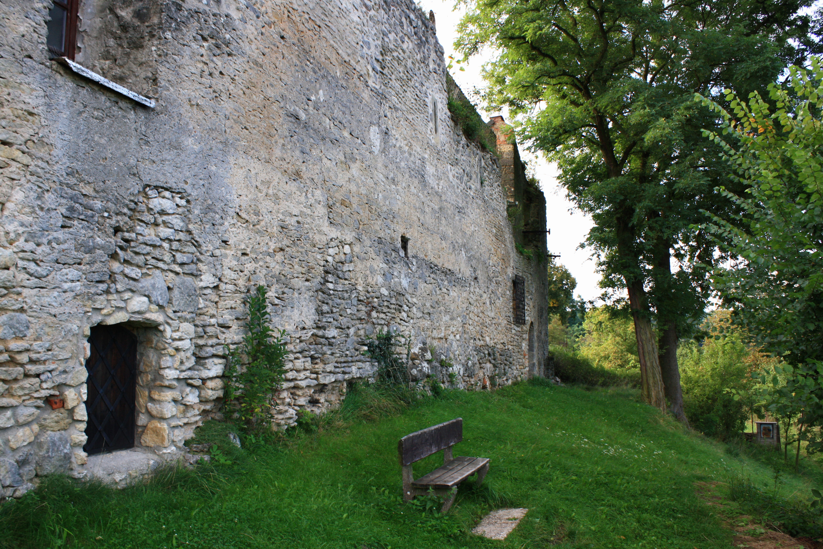 Remains of Starý Stránov castle in Písková Lhota, Czech Republic